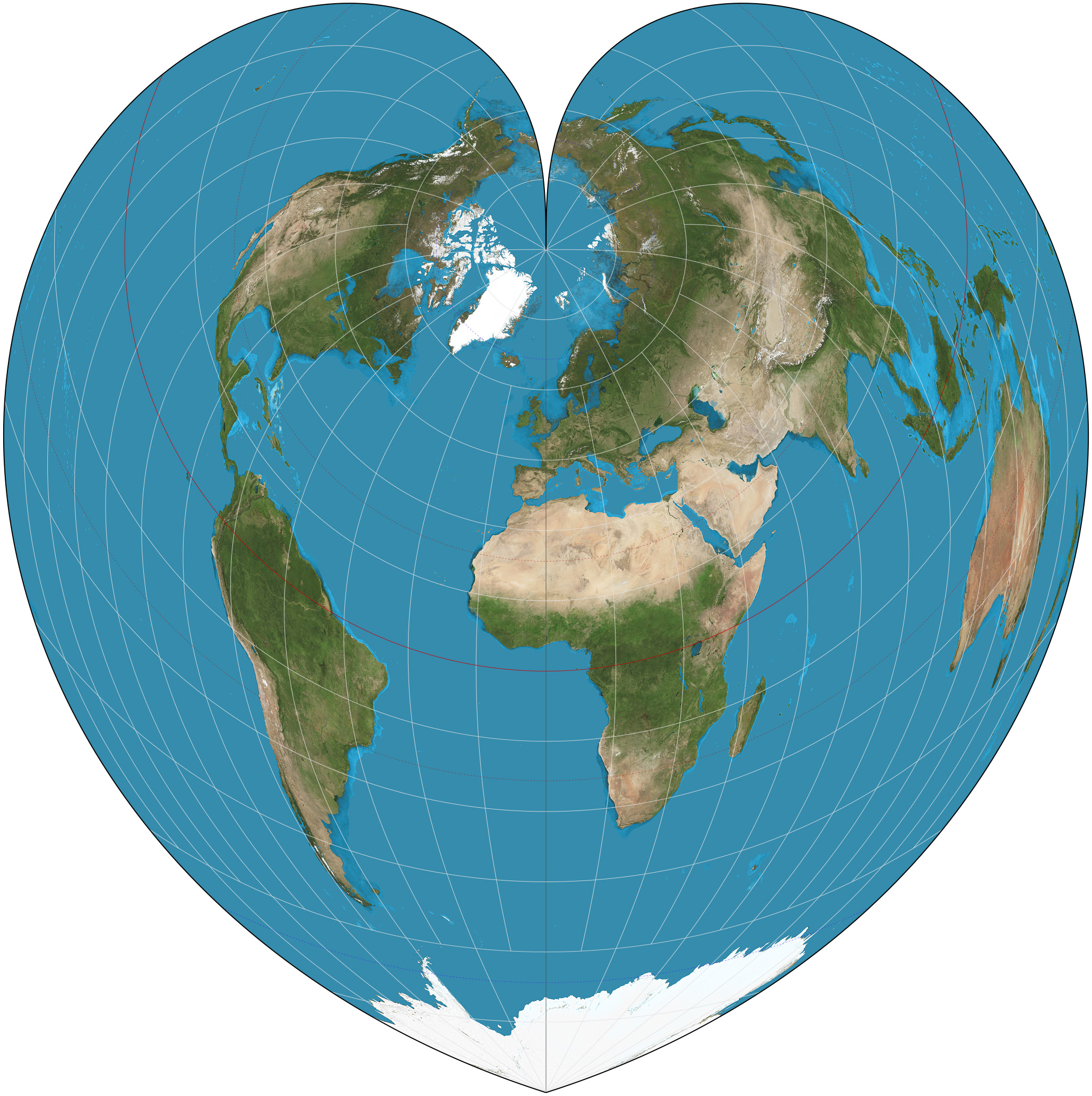 The world on Werner projection. 15° graticule. Imagery is a derivative of NASA’s Blue Marble summer month composite with oceans lightened to enhance legibility and contrast. Image created with the Geocart map projection software.